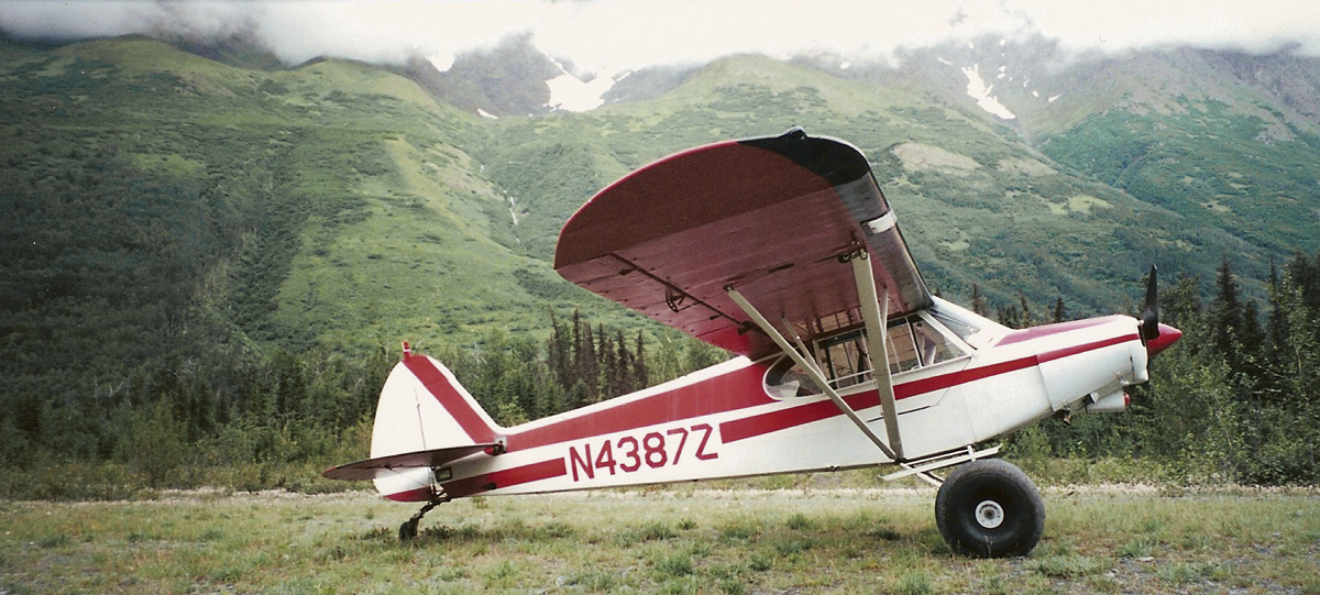 Note the tires. Eklutna Lake is a popular recreational lake in Chugach State Park in South-Central Alaska